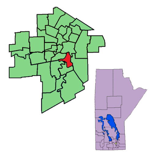 The 1999-2011 boundaries for the St. Vital electoral district highlighted in red